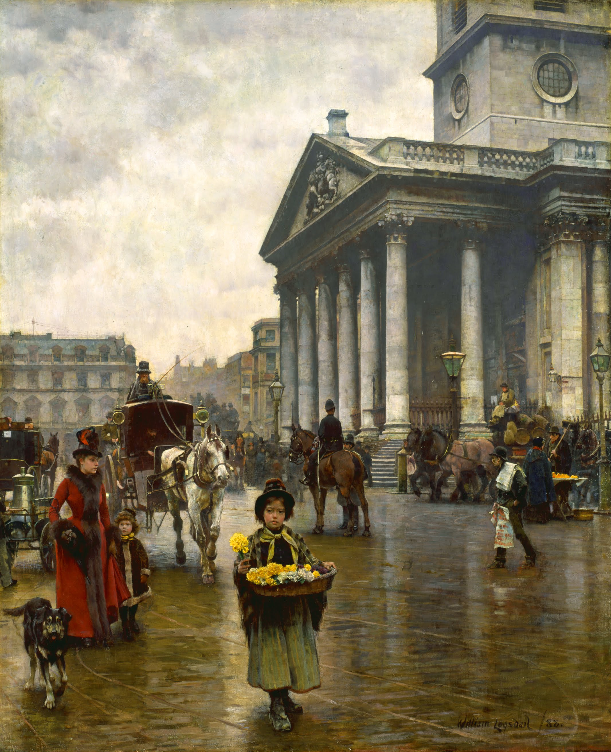 Child street seller selling flowers in Trafalgar Square with St Martin-in-the-Fields in the background.